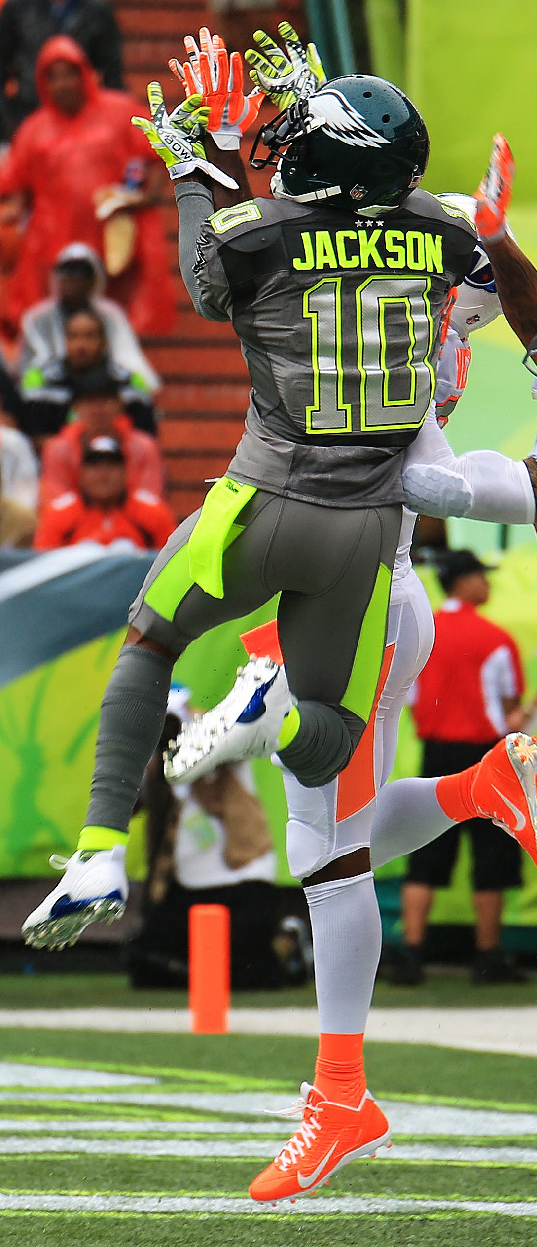 DeSean Jackson, wide receiver for the Philadelphia Eagles, jumps to catch a touchdown pass during the 2014 National Football League Pro Bowl at Aloha Stadium, Hawaii, Jan. 26, 2014.